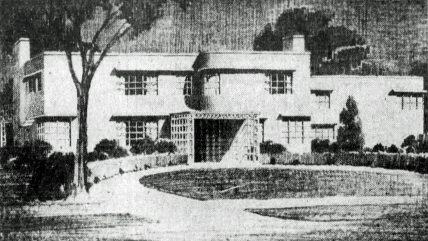 "Made-in-Detroit" Home of Lloyd H. Buhs, designed by Hugh T. Keyes, 1936